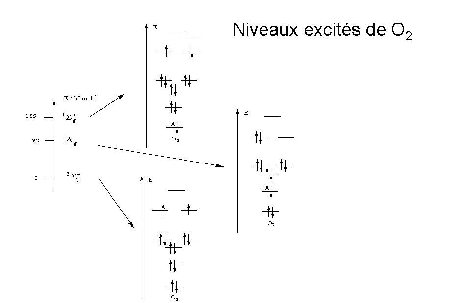 Excited state oxygen O2